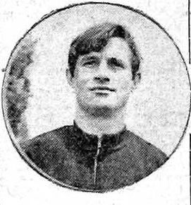 Dragan Holcer (born 19 January 1945 in Zwiesel)